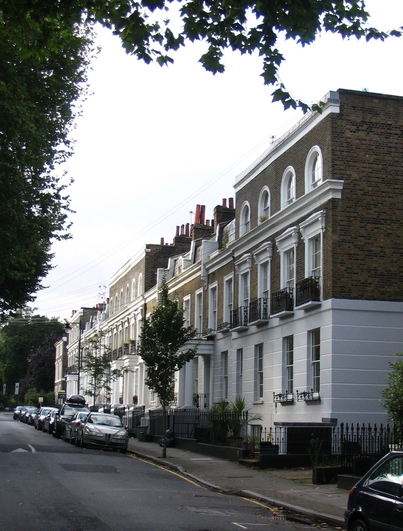 Compton Road looking south